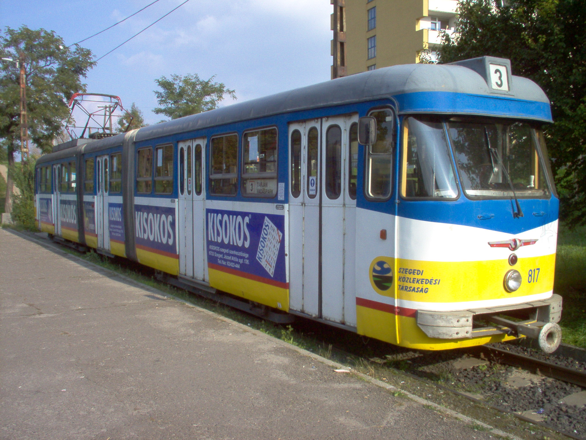 FVV articulated type tram in Szeged See other pictures: metros.hu